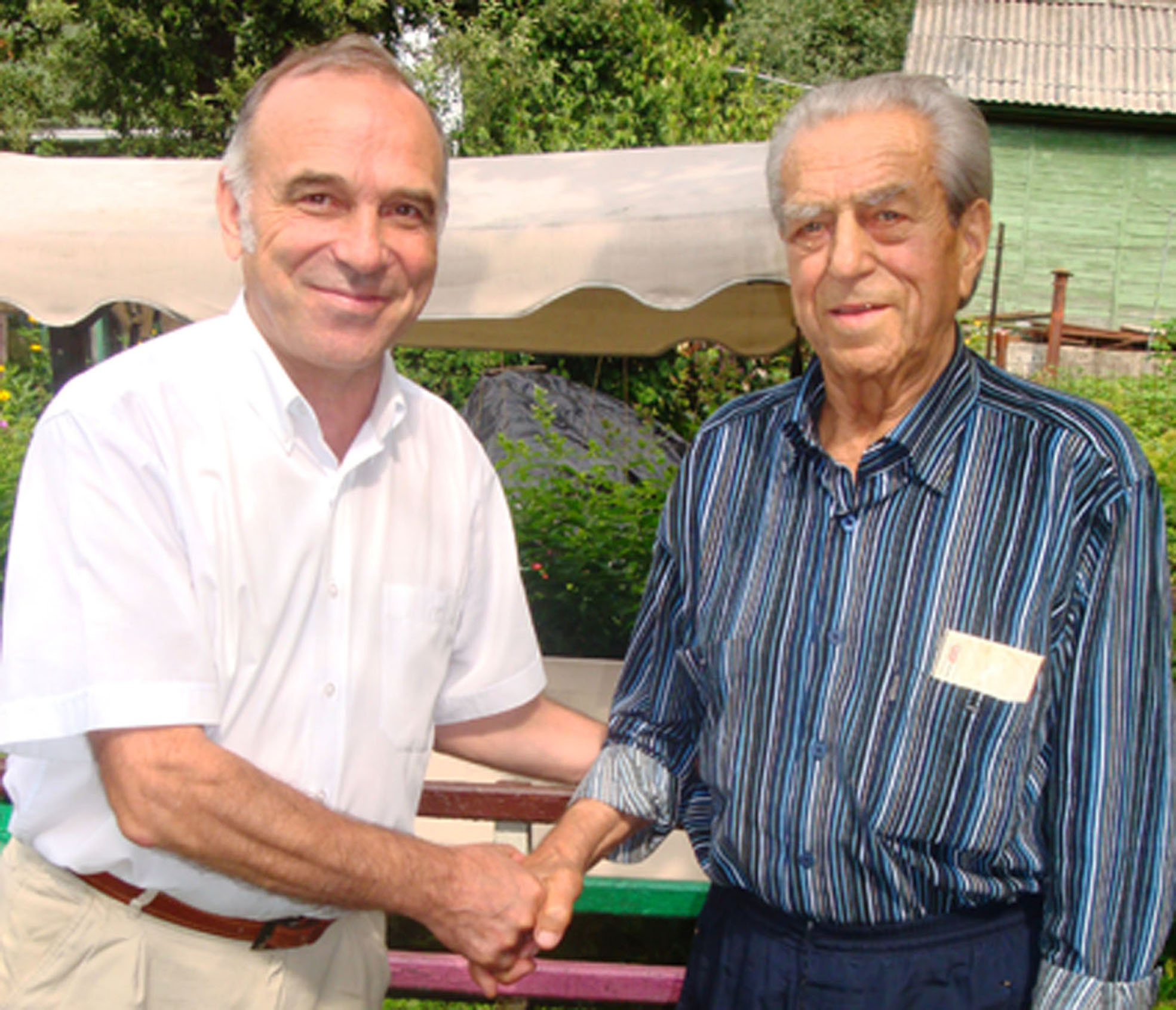 З 85-річчям відомого гідрохіміка В.І.Пелешенка (зправа), колишнього завідувача кафедри гідрології і гідрохімії КНУ ім. Т. Шевченка вітає завідувач кафедри гідрології та гідроекології В.К. Хільчевський (зліва), 28.06.2012 р.